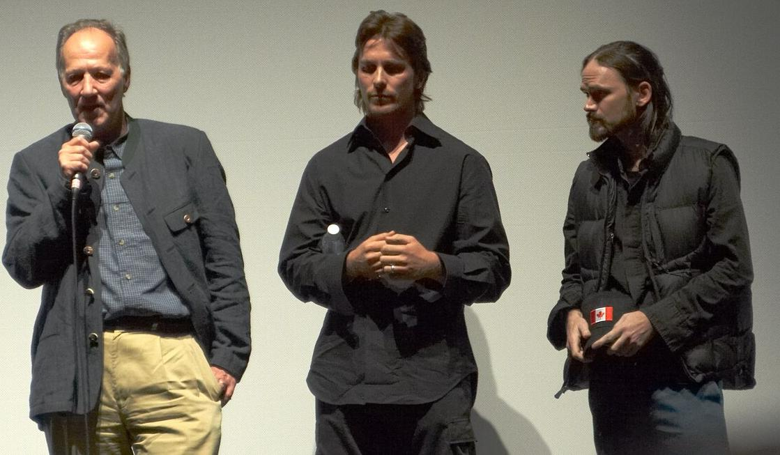 Werner Herzog, Christian Bale and Jeremy Davies answer questions after the premiere screening of Rescue Dawn in Toronto.